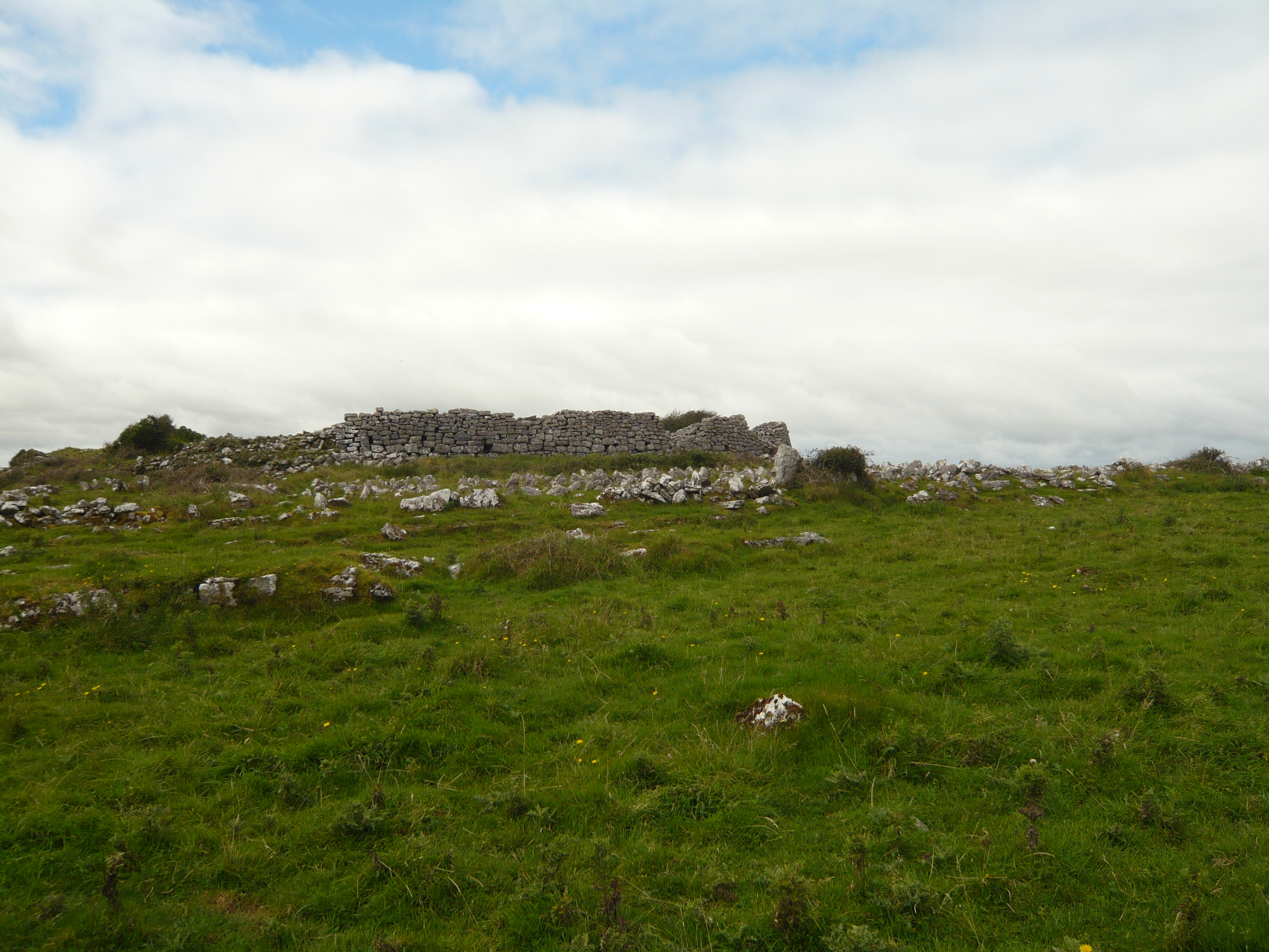 Caherminnaun East, Co. Clare, Ireland